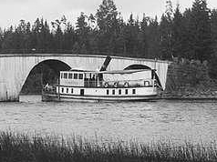 Norwegian passengership SS Turisten, built in 1887